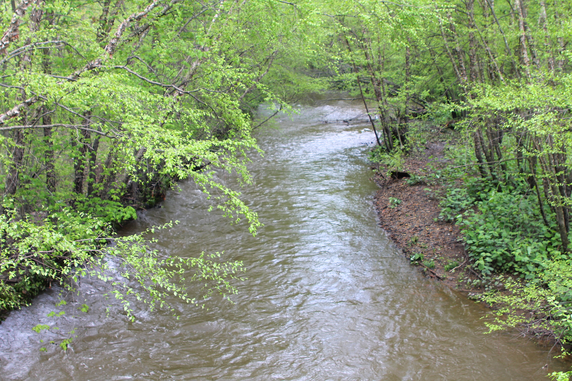 Roaring Creek from Pennsylvania Route 487. Exact same location as File:Roaring Creek (Pennsylvania) Edit1.JPG, but in springtime instead of wintertime.